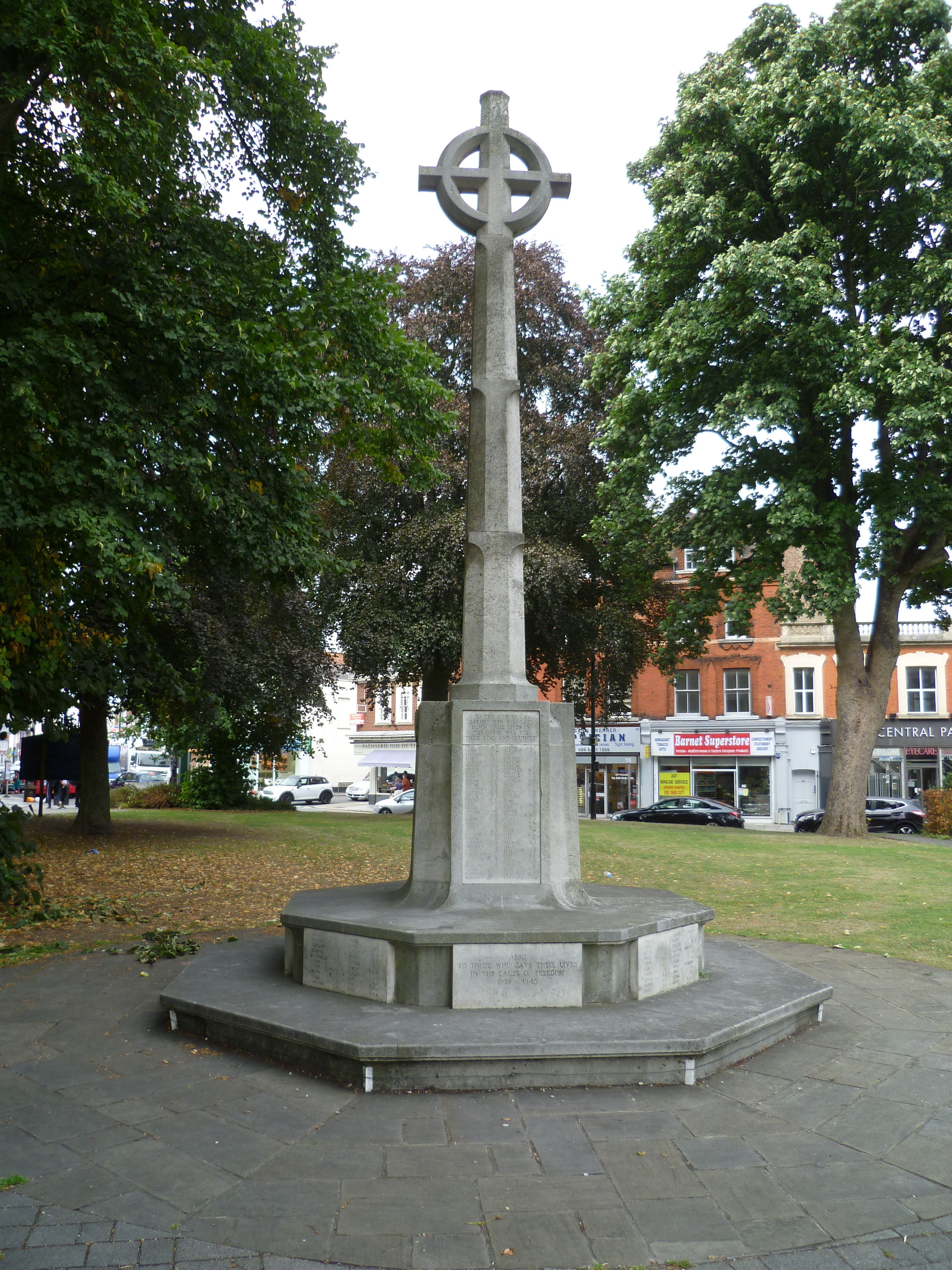 Chipping Barnet war memorial